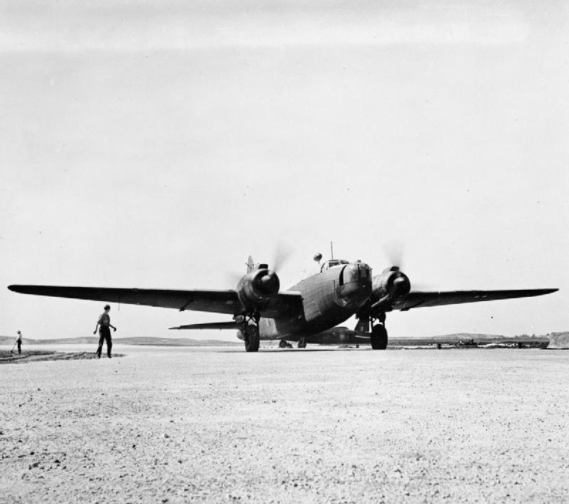 Royal Air Force in the Middle East, 1944-1945. A Vickers Wellington of No. 76 Operational Training Unit taxies out for a training flight at Aqir, Palestine.